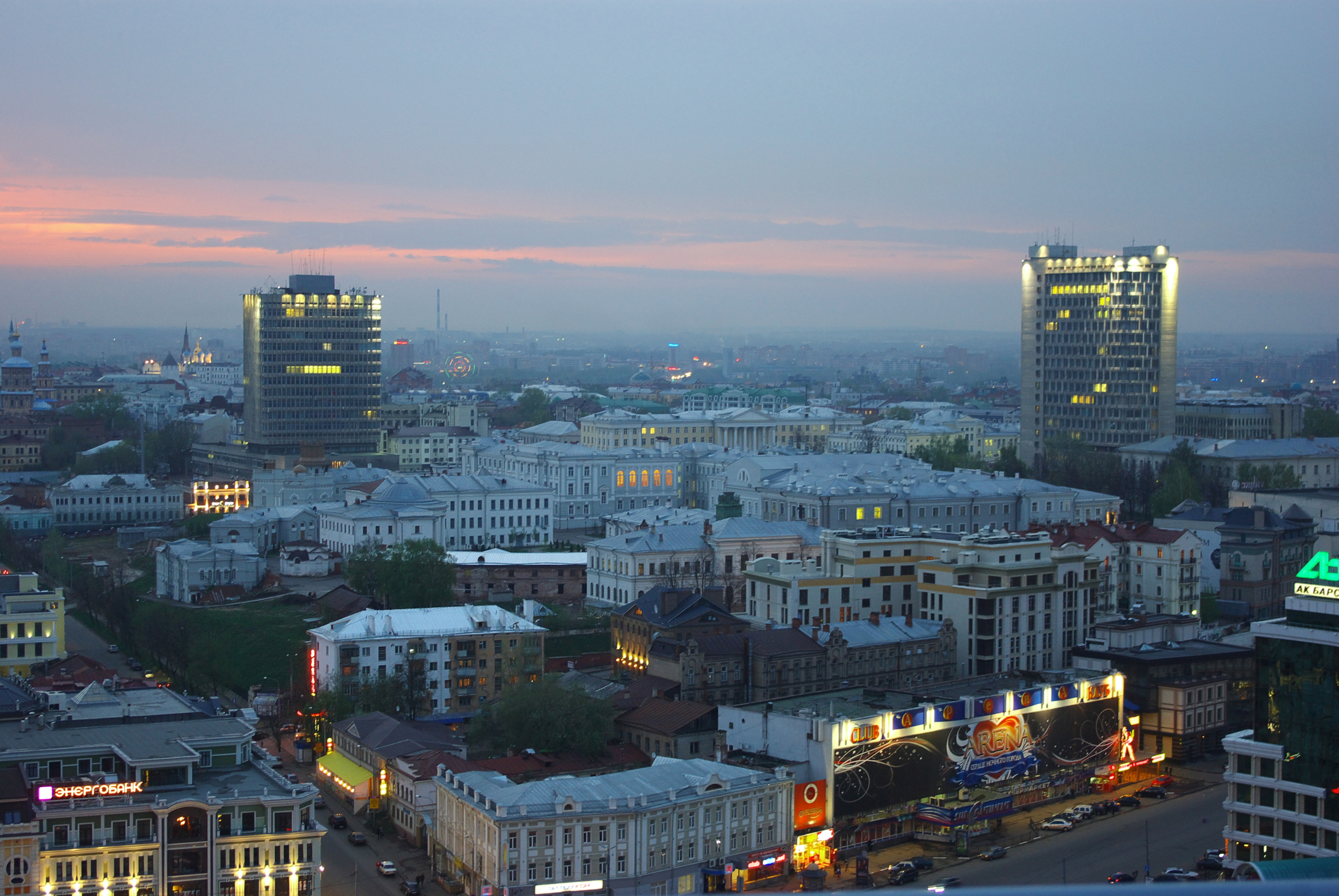 Kazan, Kazan State University